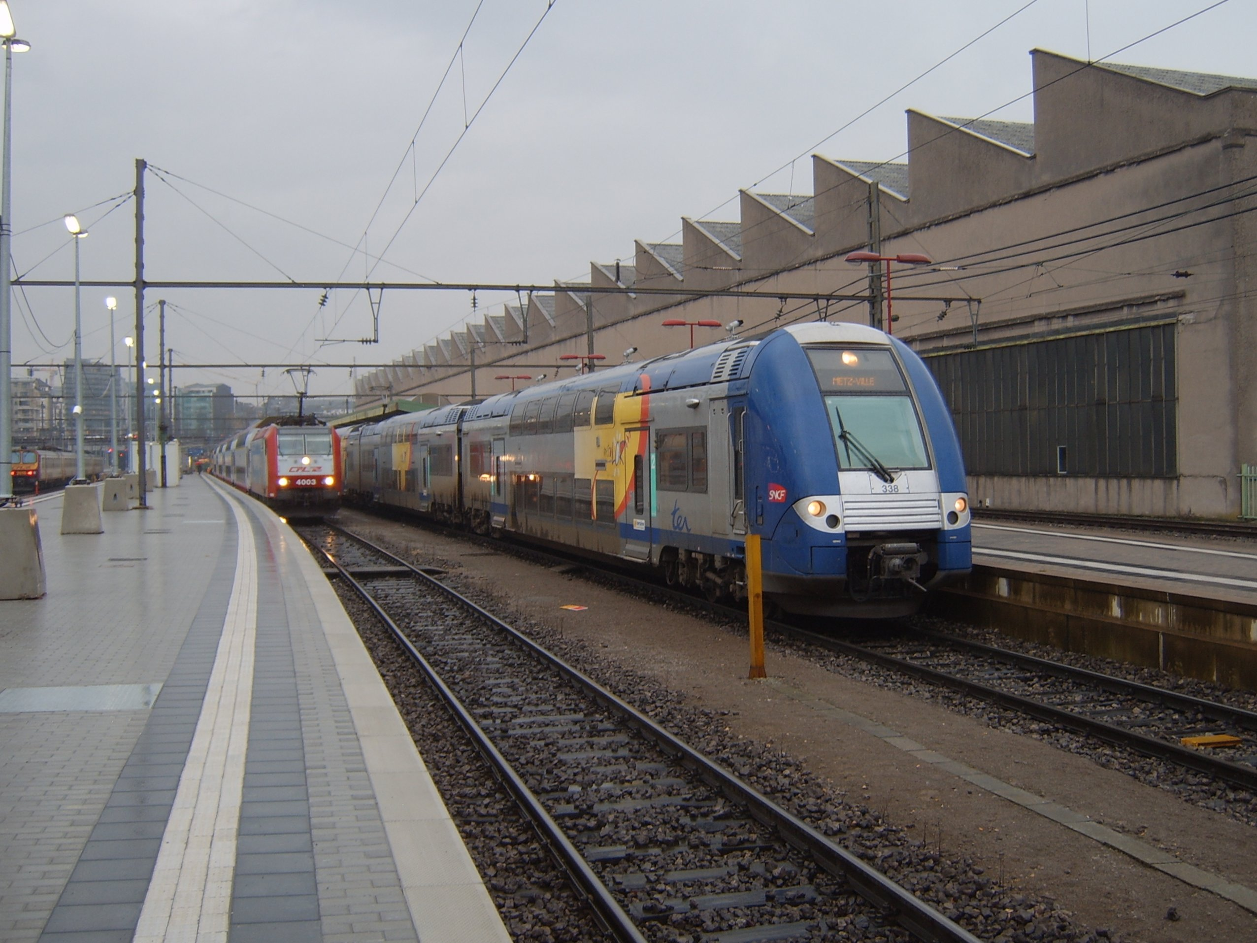 Luxembourg morning rush-hour on a wet 21 November 2007. Gone are the flat irons, many trains are double deck stock. In the background (left) is CFL loco 4003 on a domestic service whilst on the right is SNCF EMU no. Z24576 in TER Alsace livery on a service to Metz.